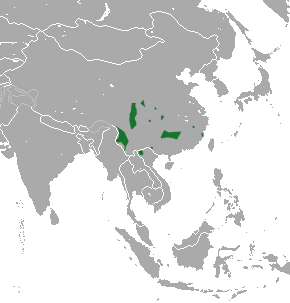 Long-nosed Mole (Euroscaptor longirostris) range